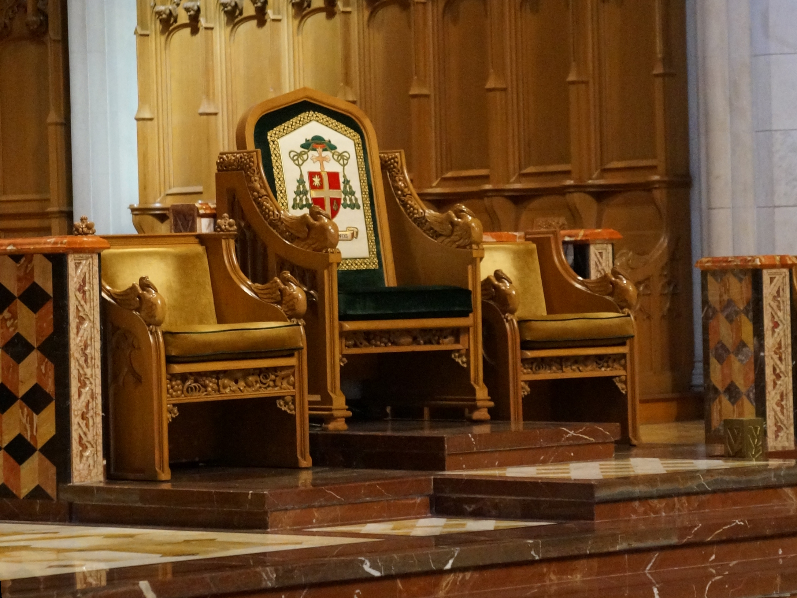 The Cathedra of the Diocese of Hamilton inside the Cathedral Basilica of Christ the King in Hamilton, Ontario.